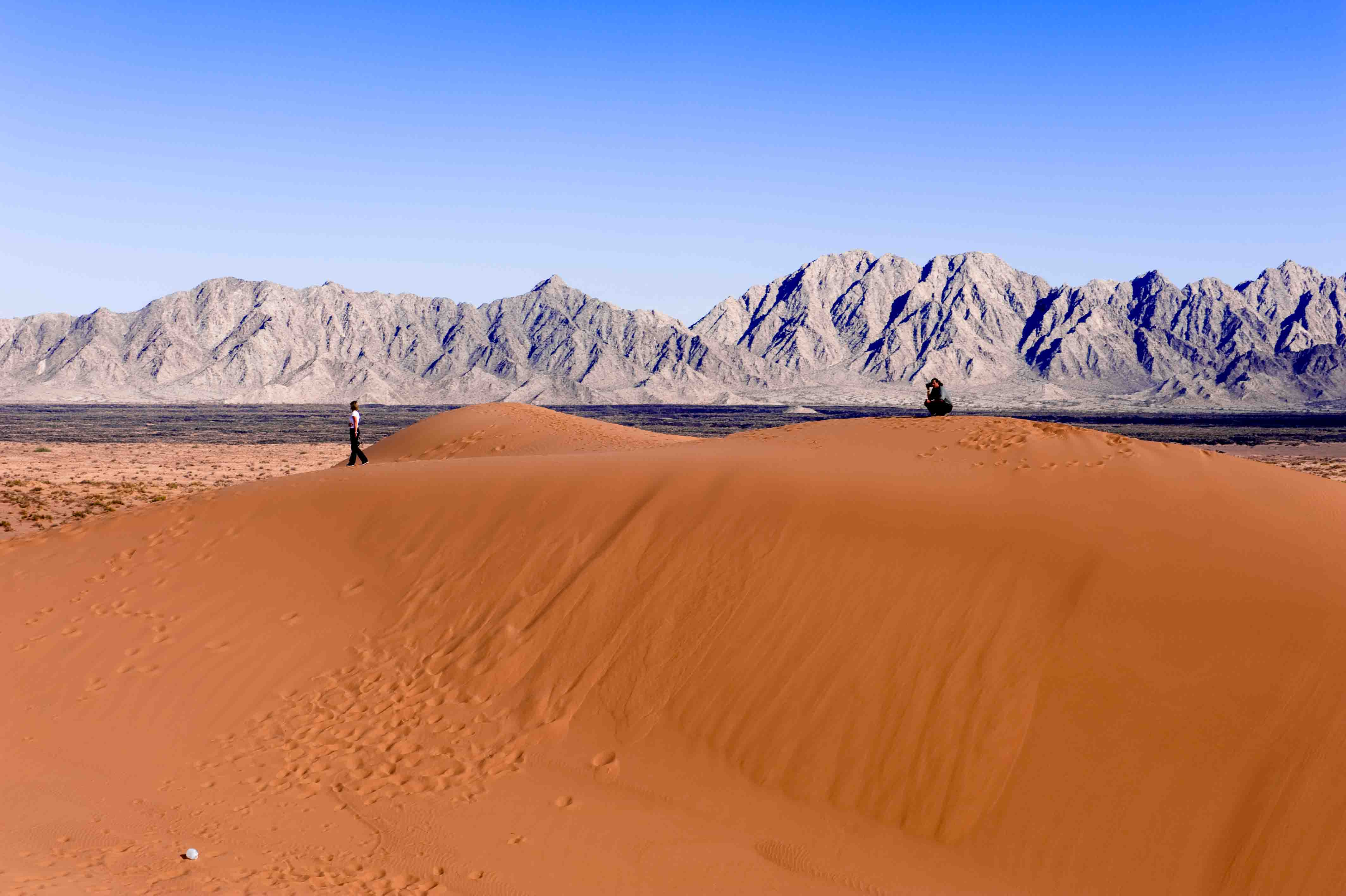 View to the Pinacate craters from the sand dunes — El Pinacate y Gran Desierto de Altar Biosphere Reserve, NW México.